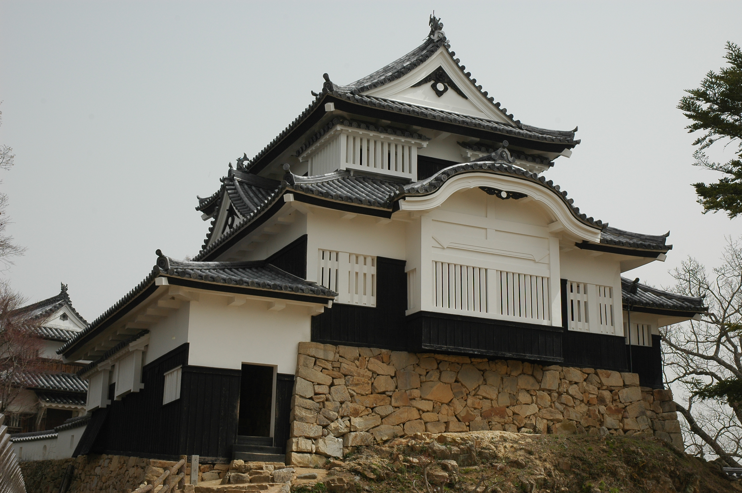 The Keep and two story tower(Japan's national important cultural property) of Bitchū Matsuyama castle